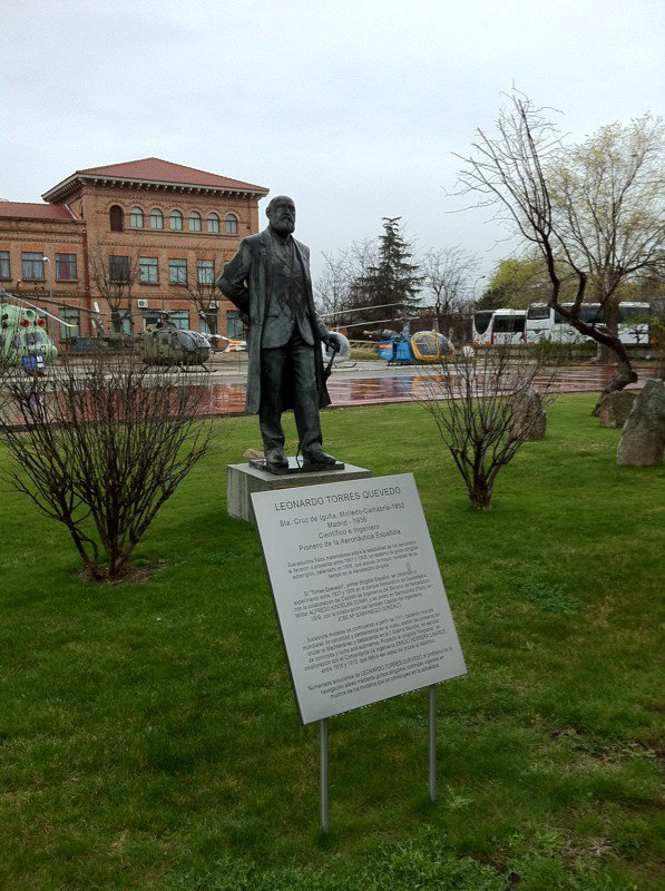 was a Spanish civil engineer and mathematician of the late nineteenth and early twentieth centuries.